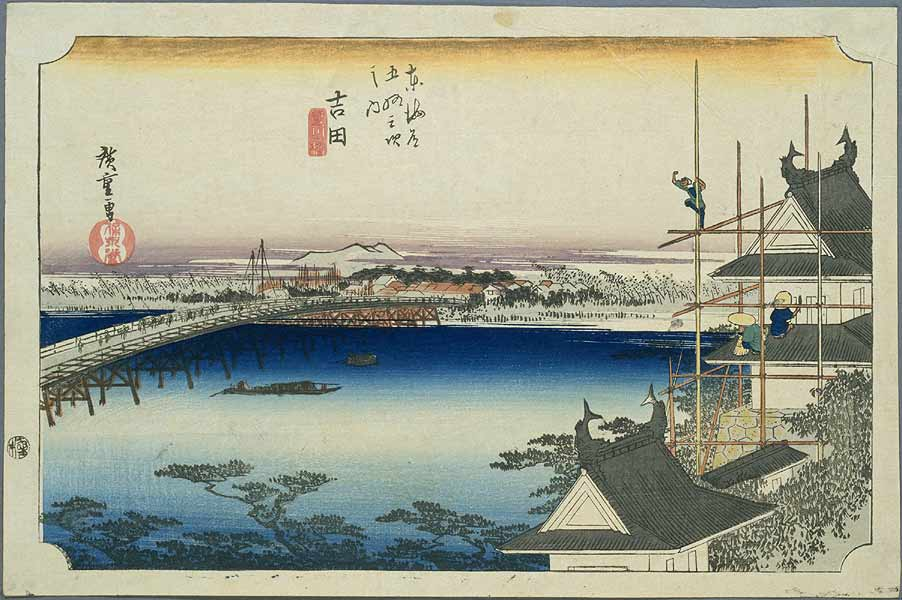 Yoshida on the Tokaido, ukiyo-e prints by Hiroshige